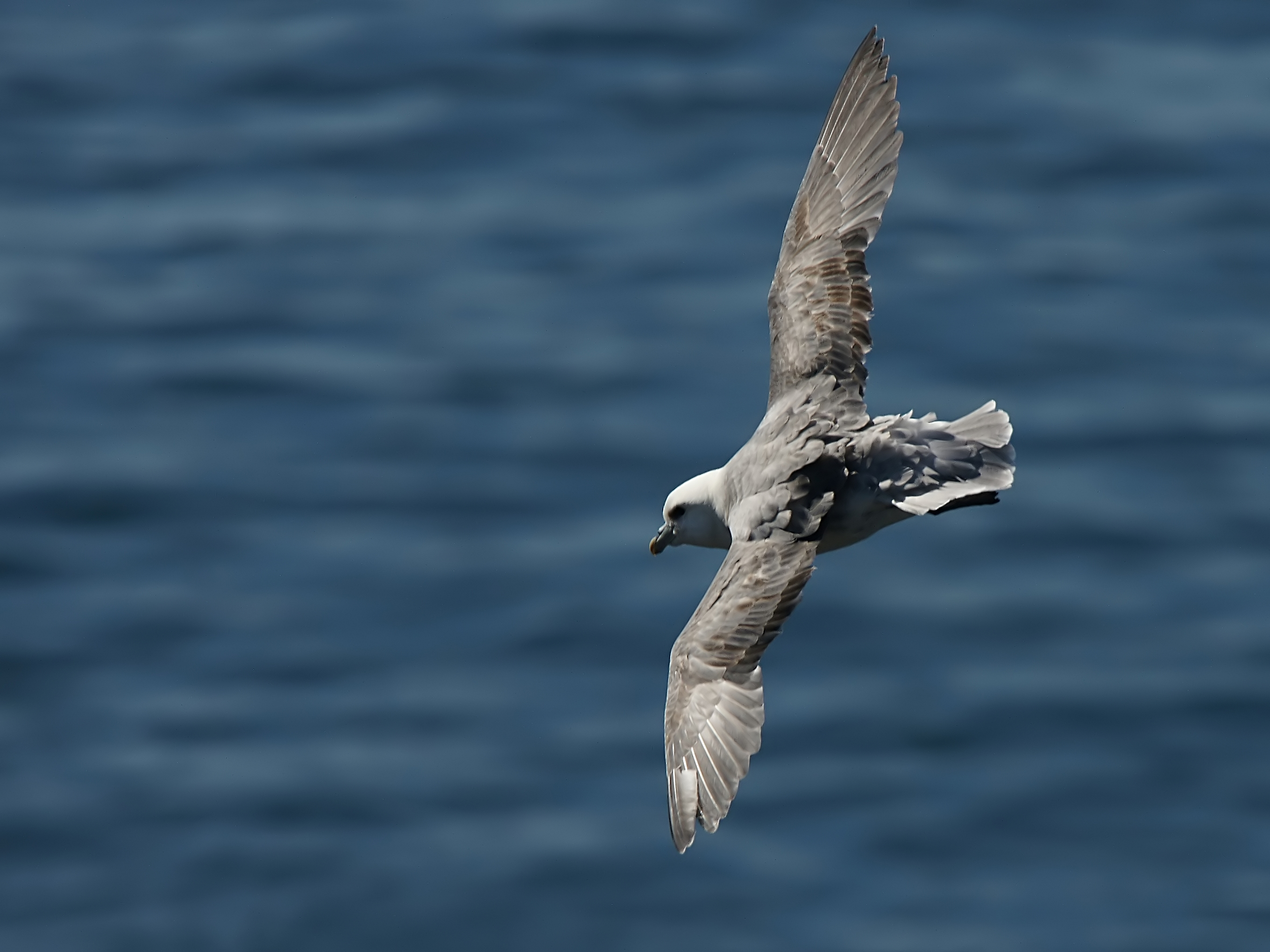 Northern Fulmar, Iceland